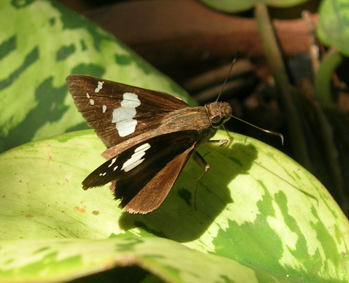 Restricted Demon, Notocrypta curvifascia, Hesperidae. from Wayanad, India